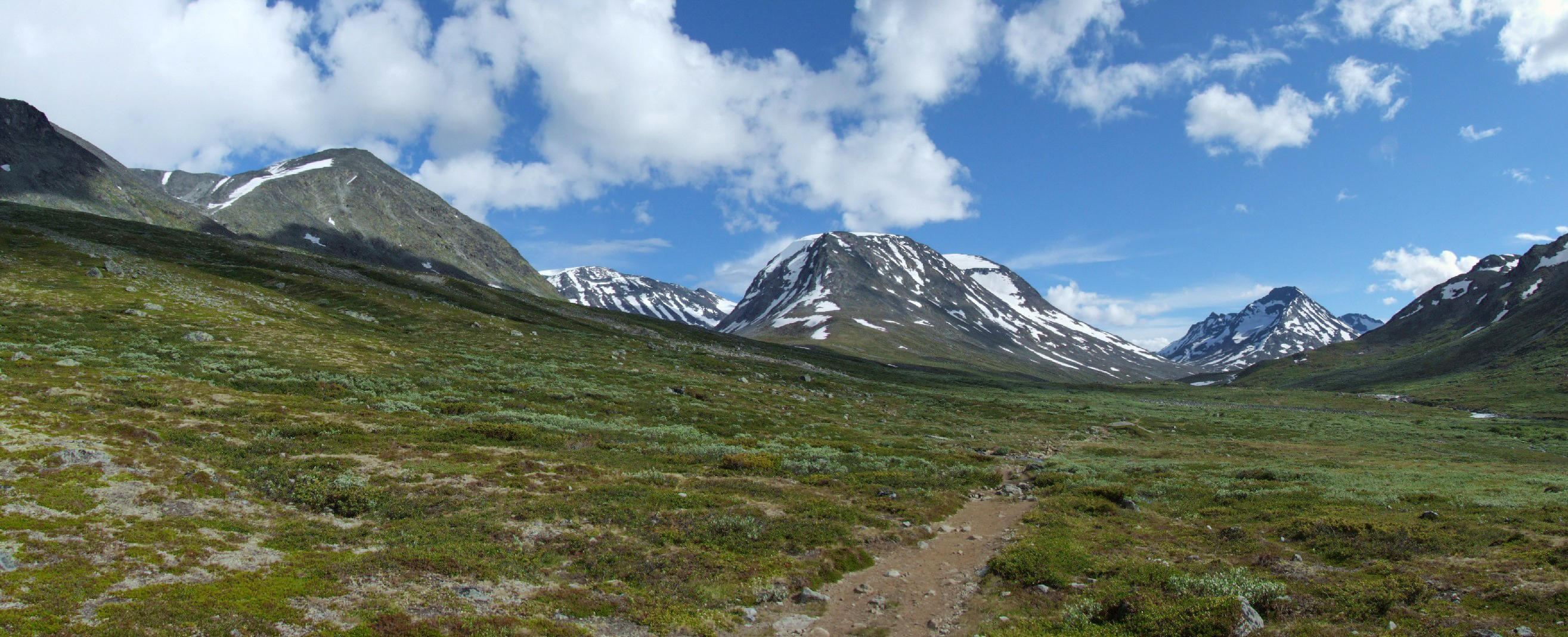 Visdalen valley with Visa river in Jotunheimen mountains, Norway